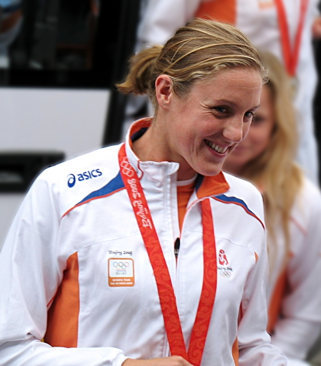 Marleen Veldhuis, 2008 Olympic swimming champion. Photo taken during the Welcome Home event organised at the Amsterdam Olympic stadium on August 25, 2008. Cropped, scaled and colour corrected version of